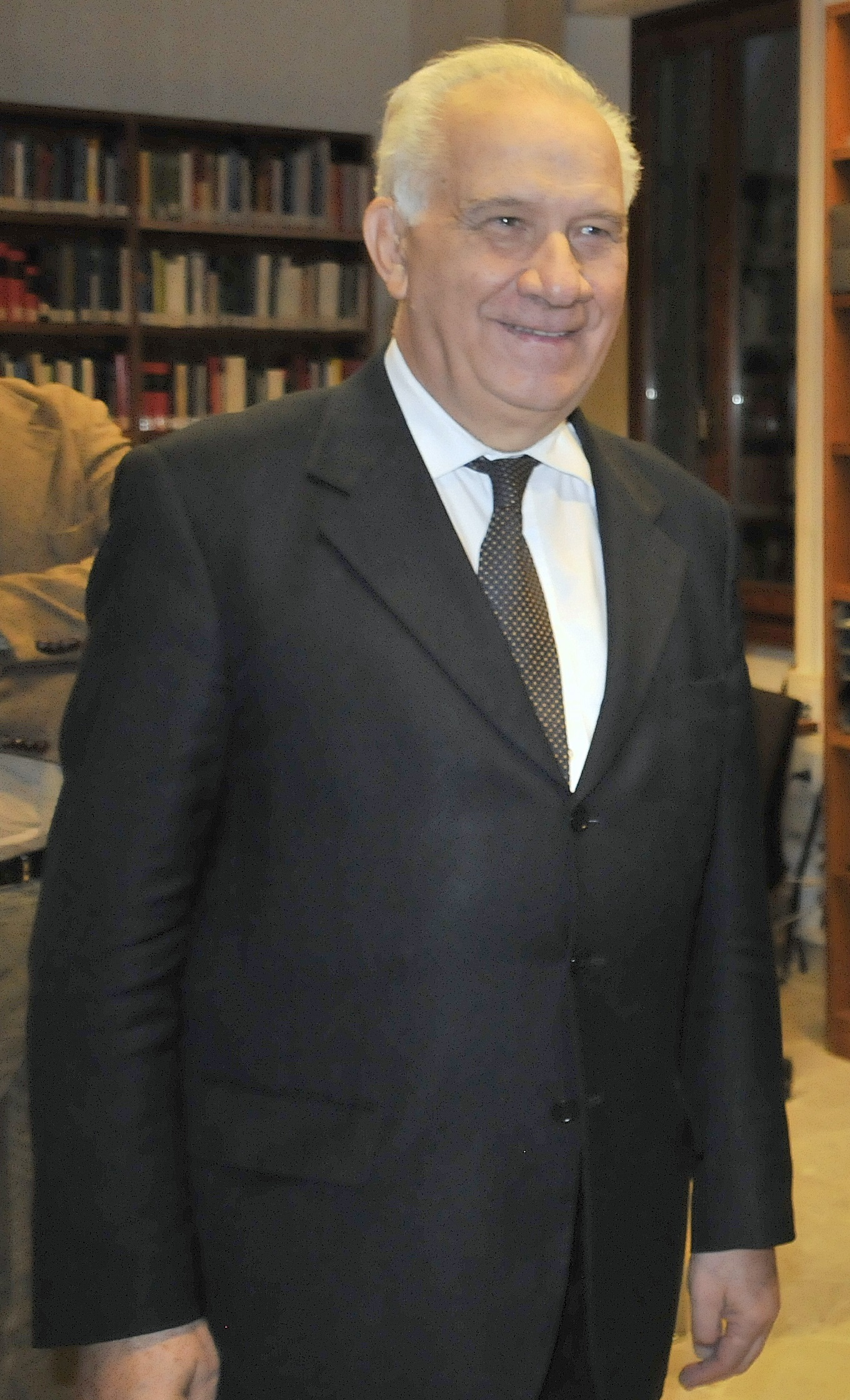 President Carlo Casini at the Historical Archives